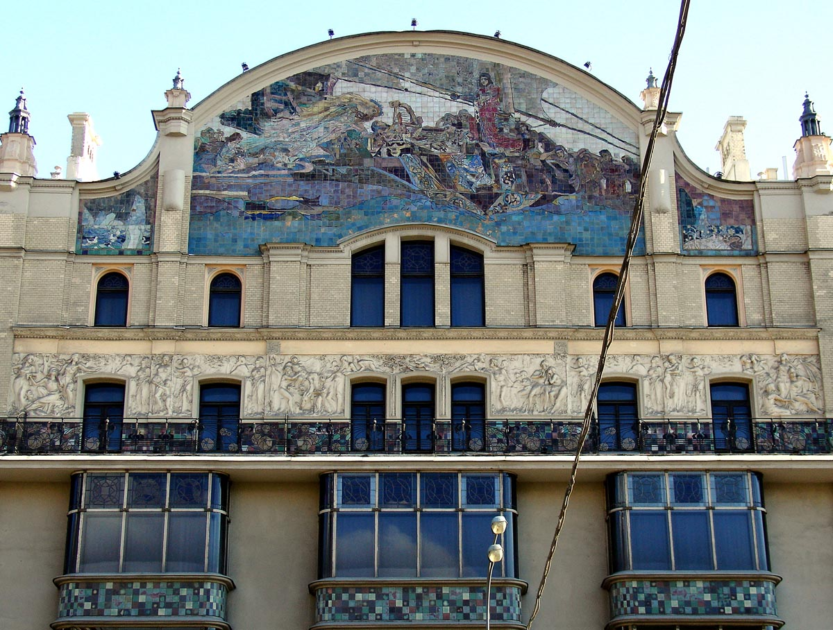 Hotel Metropol, Moscow, Russia, 1899-1907, artwork by Vrubel, Golovin, Andreev